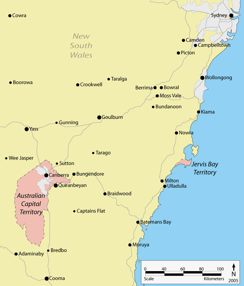 Map of the ACT and Jervis Bay relative to Sydney Drawn by me in illustrator from various sources Released under the GFDL